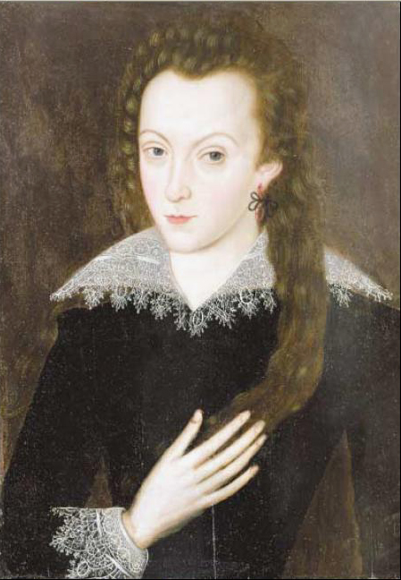 Portrait of Henry Wriothesley, 3rd Earl of Southampton (1573-1624)